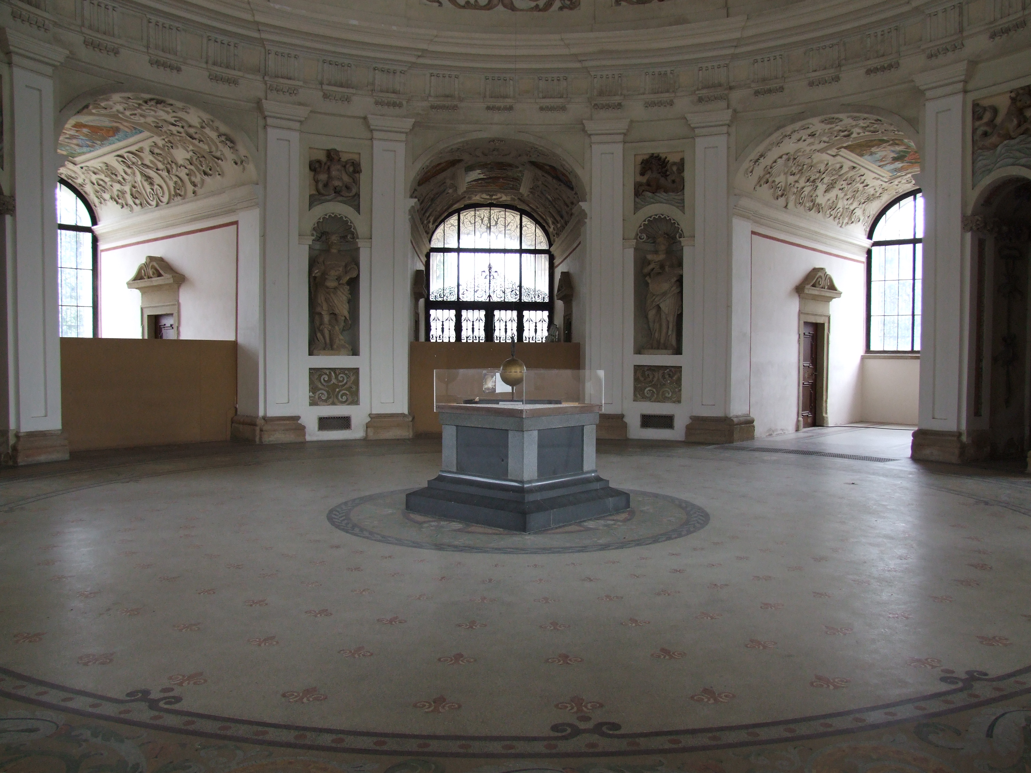 Foucault Pendulum, Rotunda in the Flower Garden, Kroměříž, Czech Republic